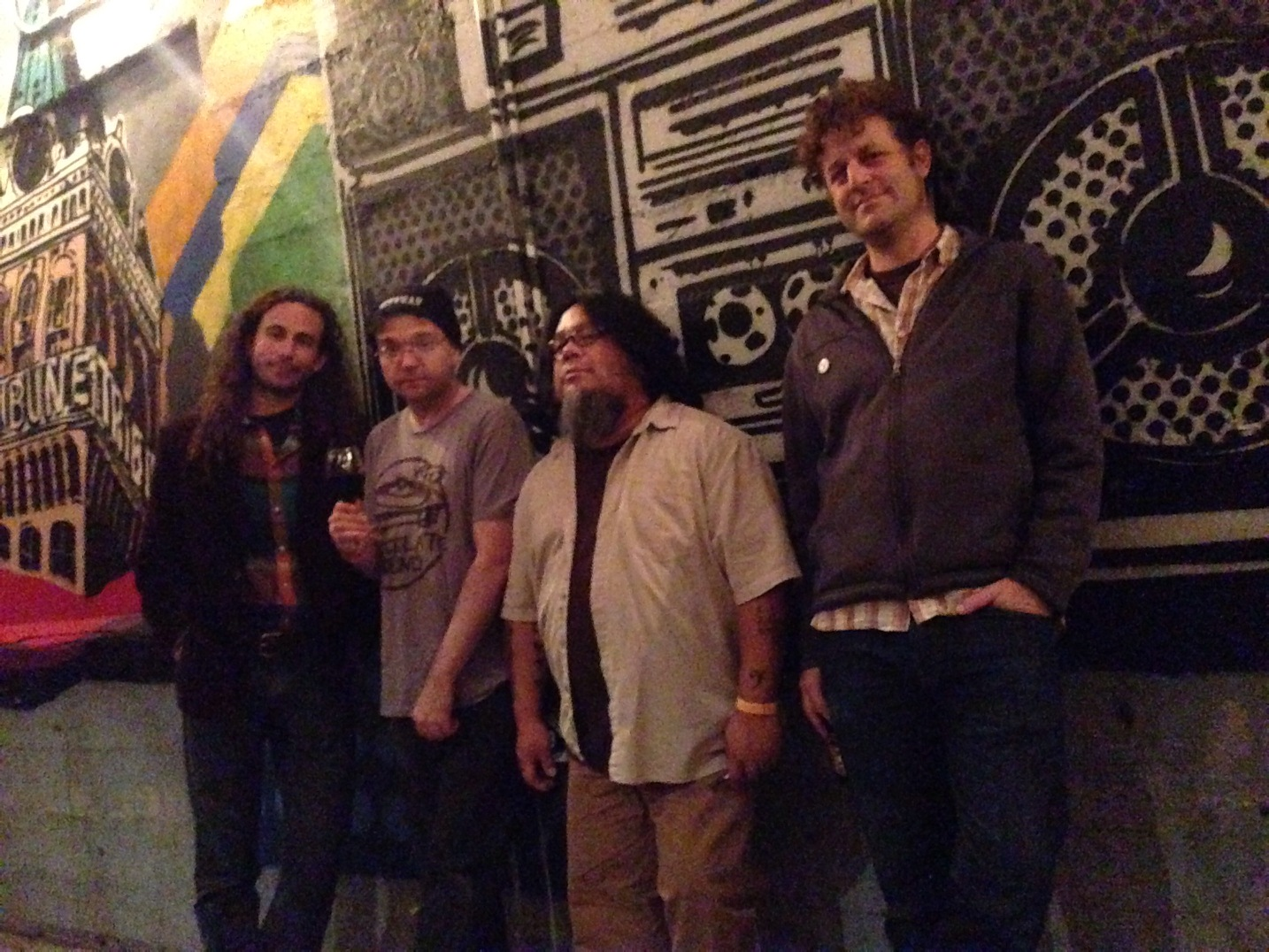 Ready to rock the Uptown, Oakland CA, September 2016. Left to right: Reese Douglas, André Custodio, Alex Jimenez, Will Georgantas.